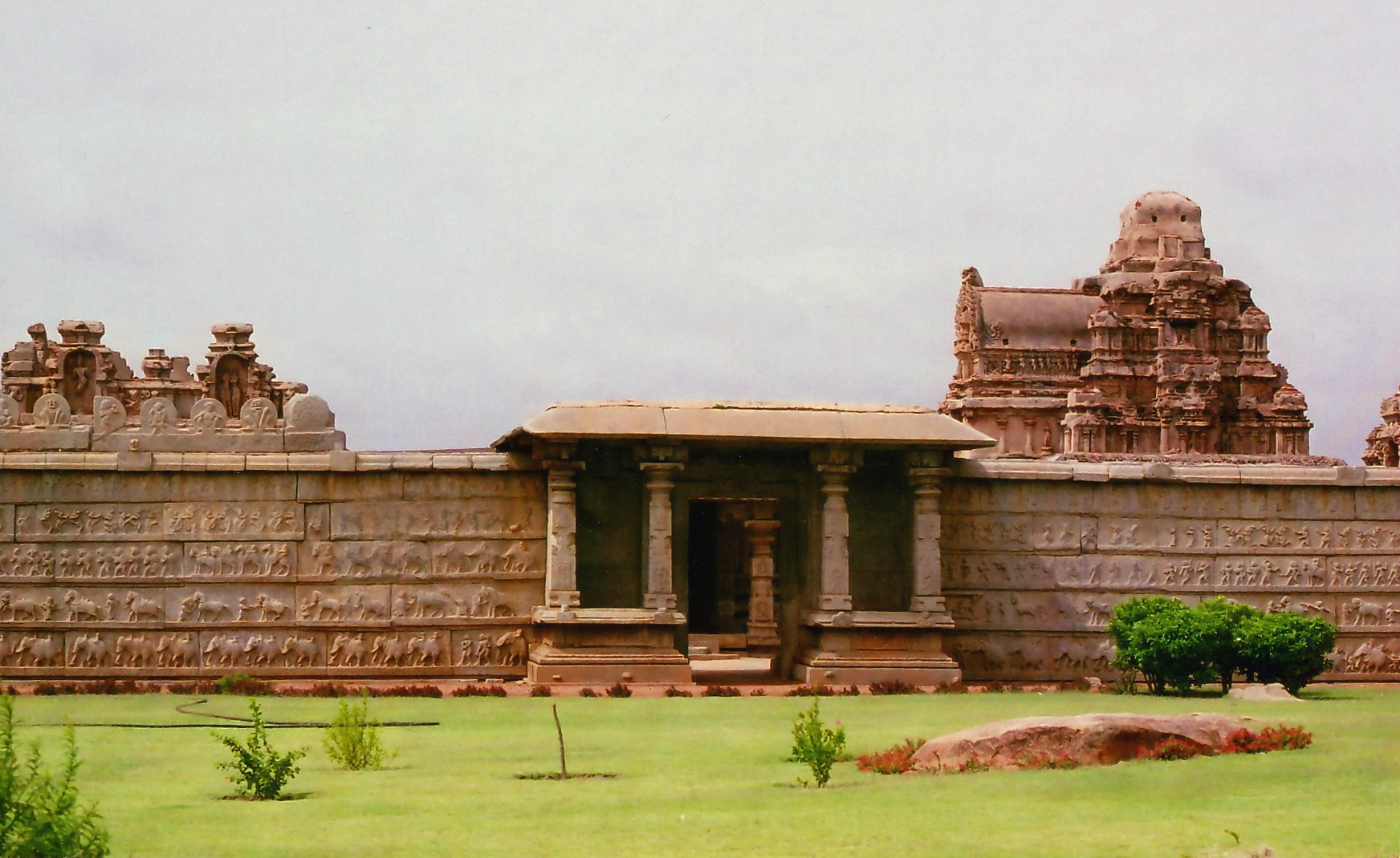 Photograph taken by self (Dineshkannambadi) at Hazara Rama Temple in Hampi, Karnataka state, India in June 2004